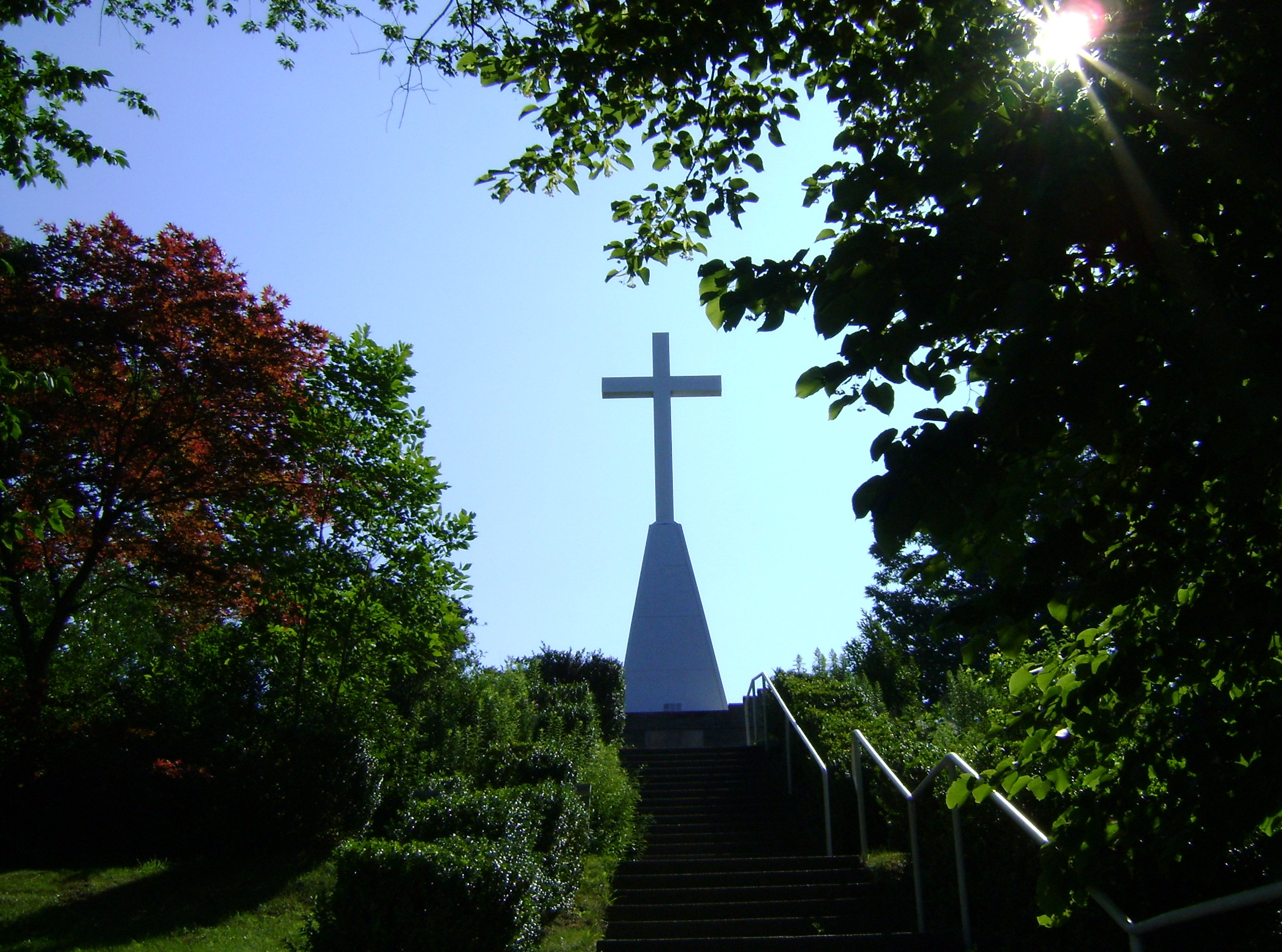 Jacques Marquette memorial in Ludington, Michigan.